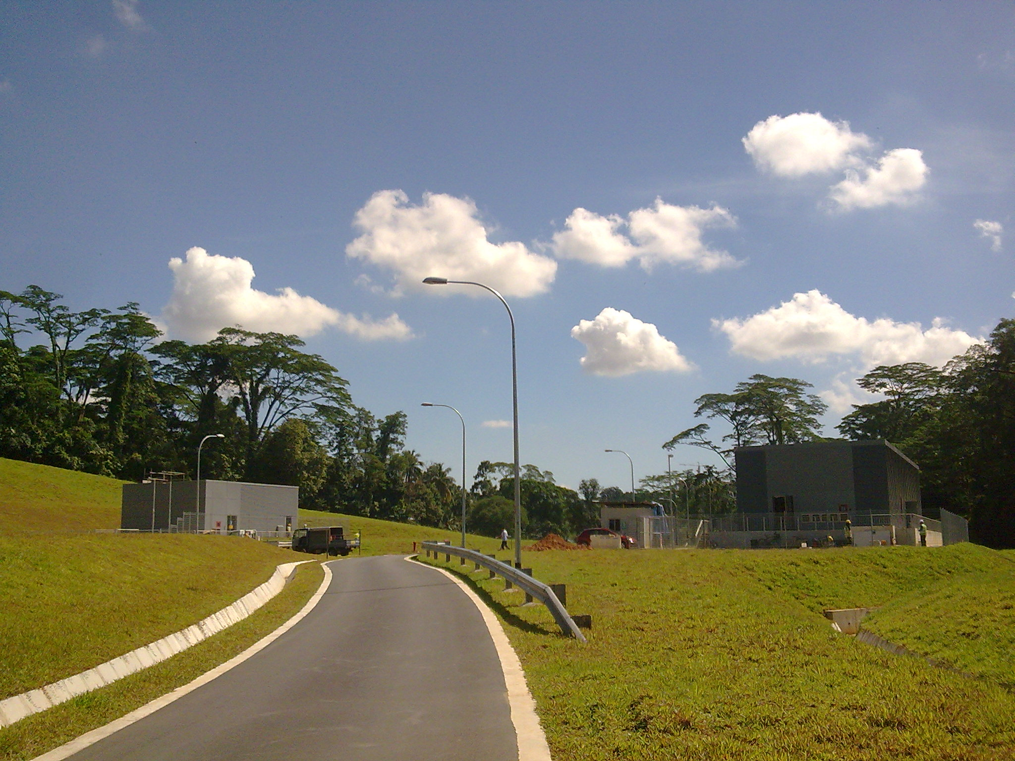 Ventilation shafts and reinstated road above the station box.